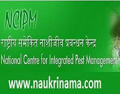 प्रतीक चिन्ह